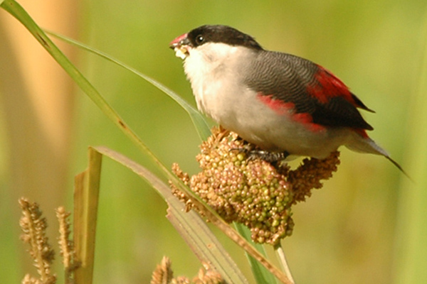 Uganda Black-crowned Waxbill (Estrilda nonnula)